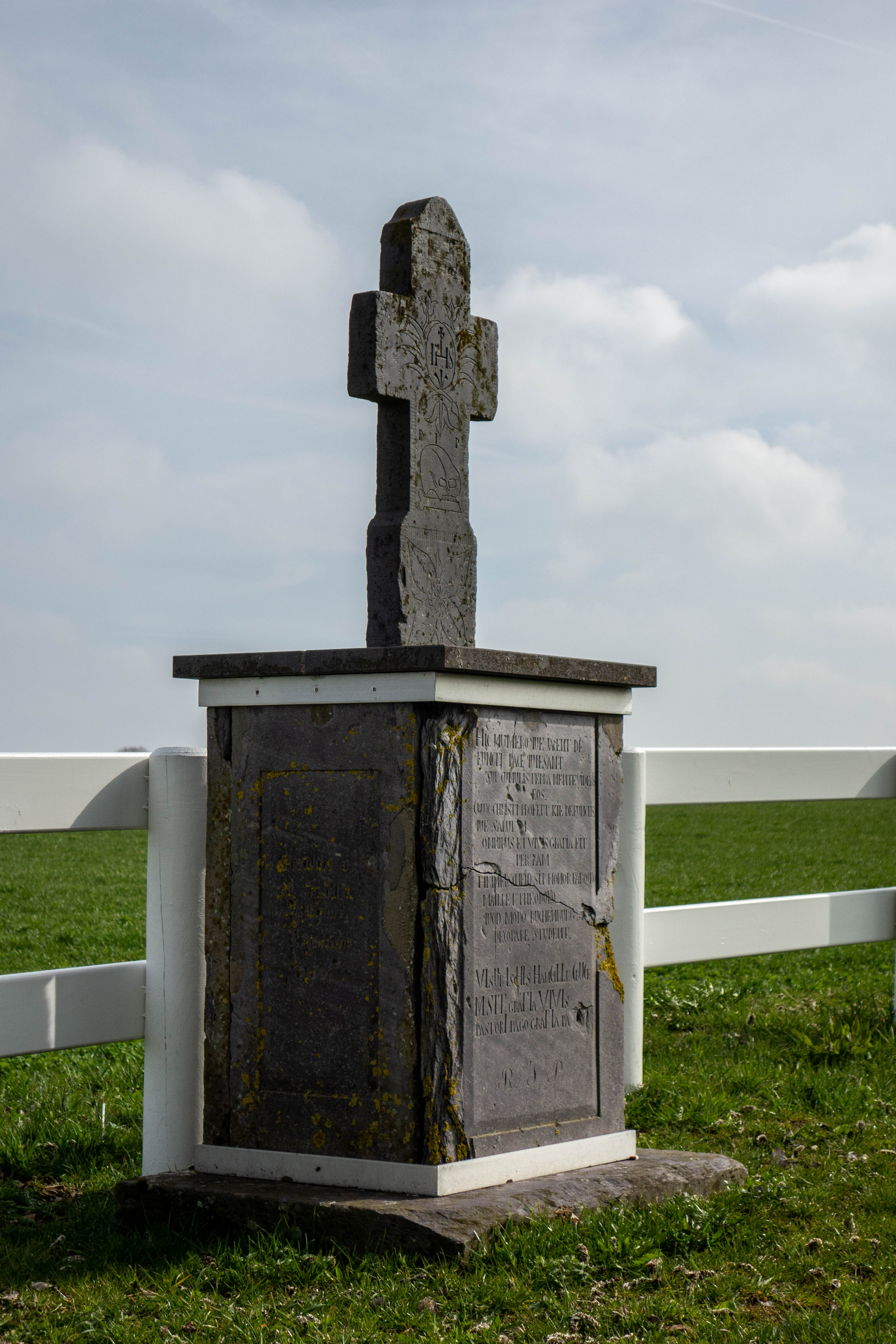 Grafsteen Buchebuerg